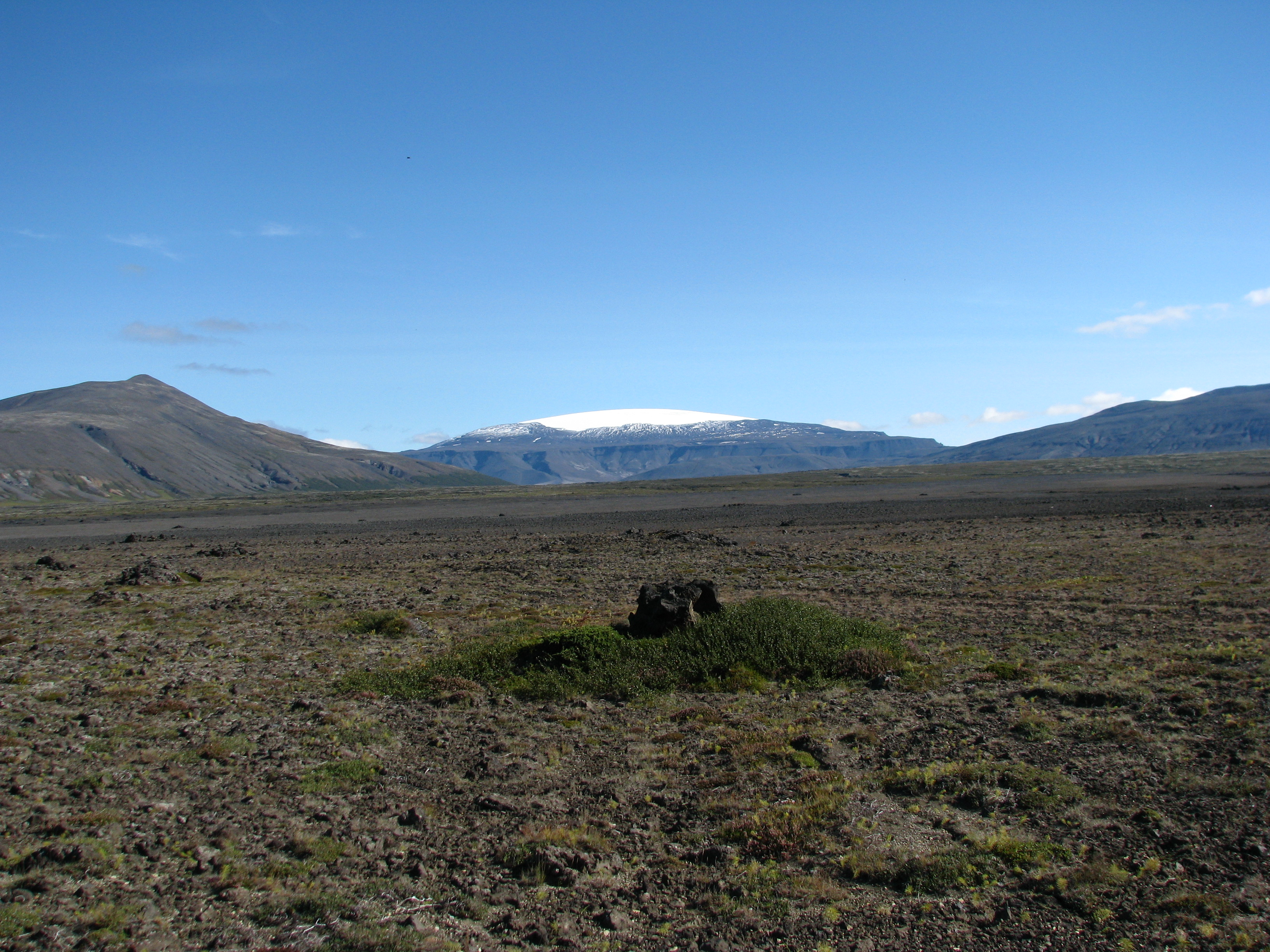 Eiríksjökull, a small glacier on Iceland.